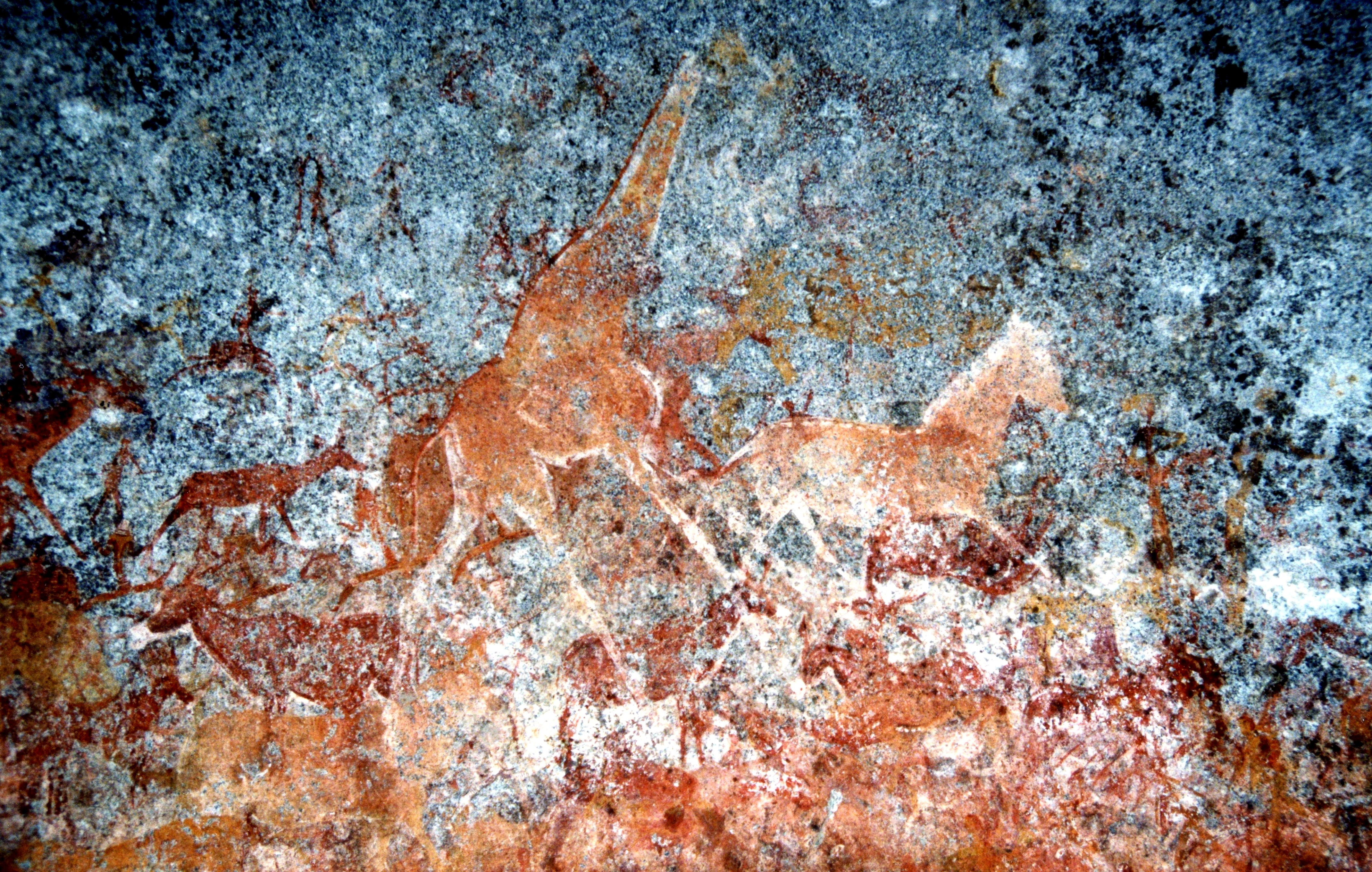 Nswatugi Cave Matobo National Park